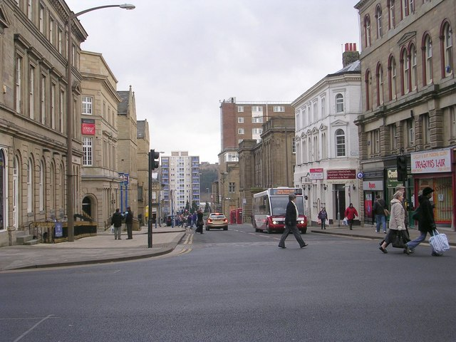 Northumberland Street - John William Street